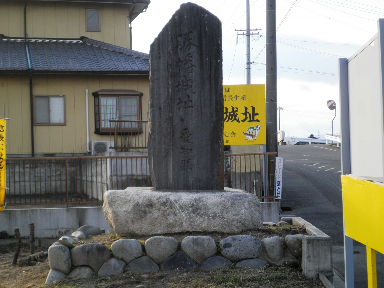 Shobata Castle Site in Inazawa, Aichi prefecture.